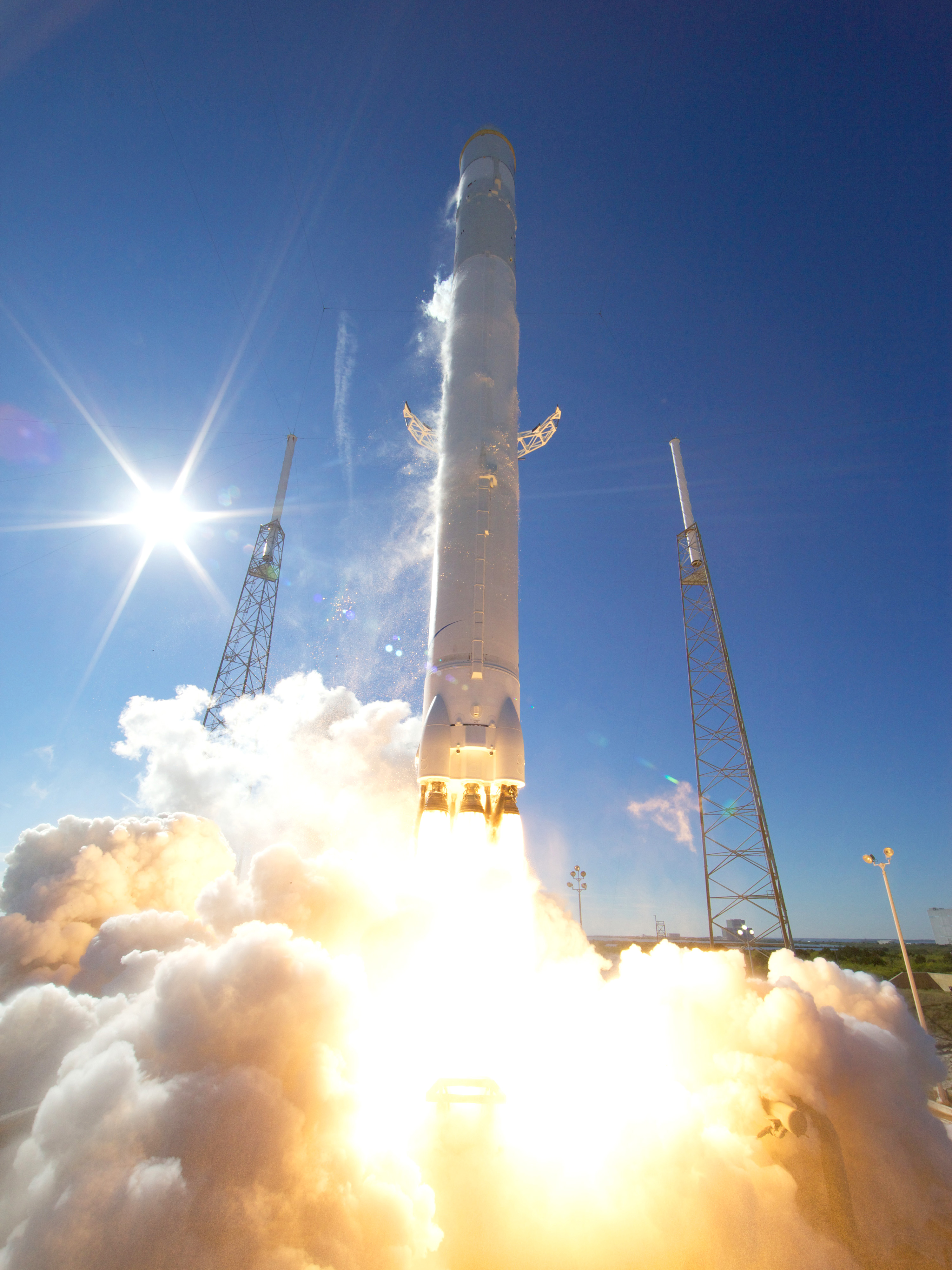 On December 8, 2010, a Falcon 9 rocket, launched from Cape Canaveral, carried a Dragon spacecraft to orbit. During that mission, SpaceX became the first commercial company in history to send a spacecraft to orbit and return it safely to Earth. Credit: SpaceX